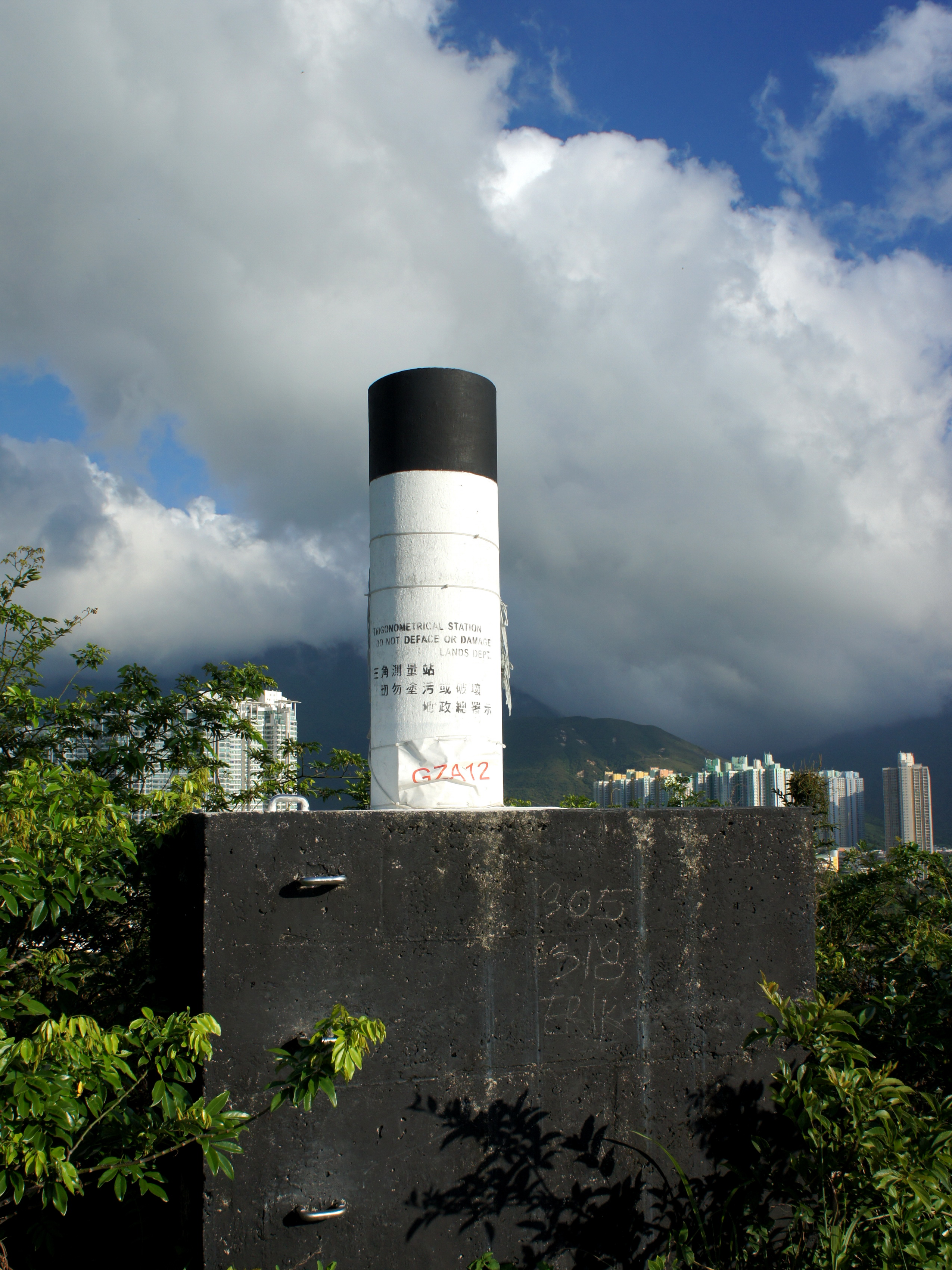 Trigonometrical station #236 at the Chek Lap Kok Scenic Hill.